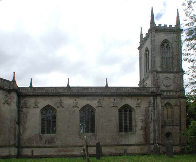 St Mary Magdalene, Stapleford, Leics